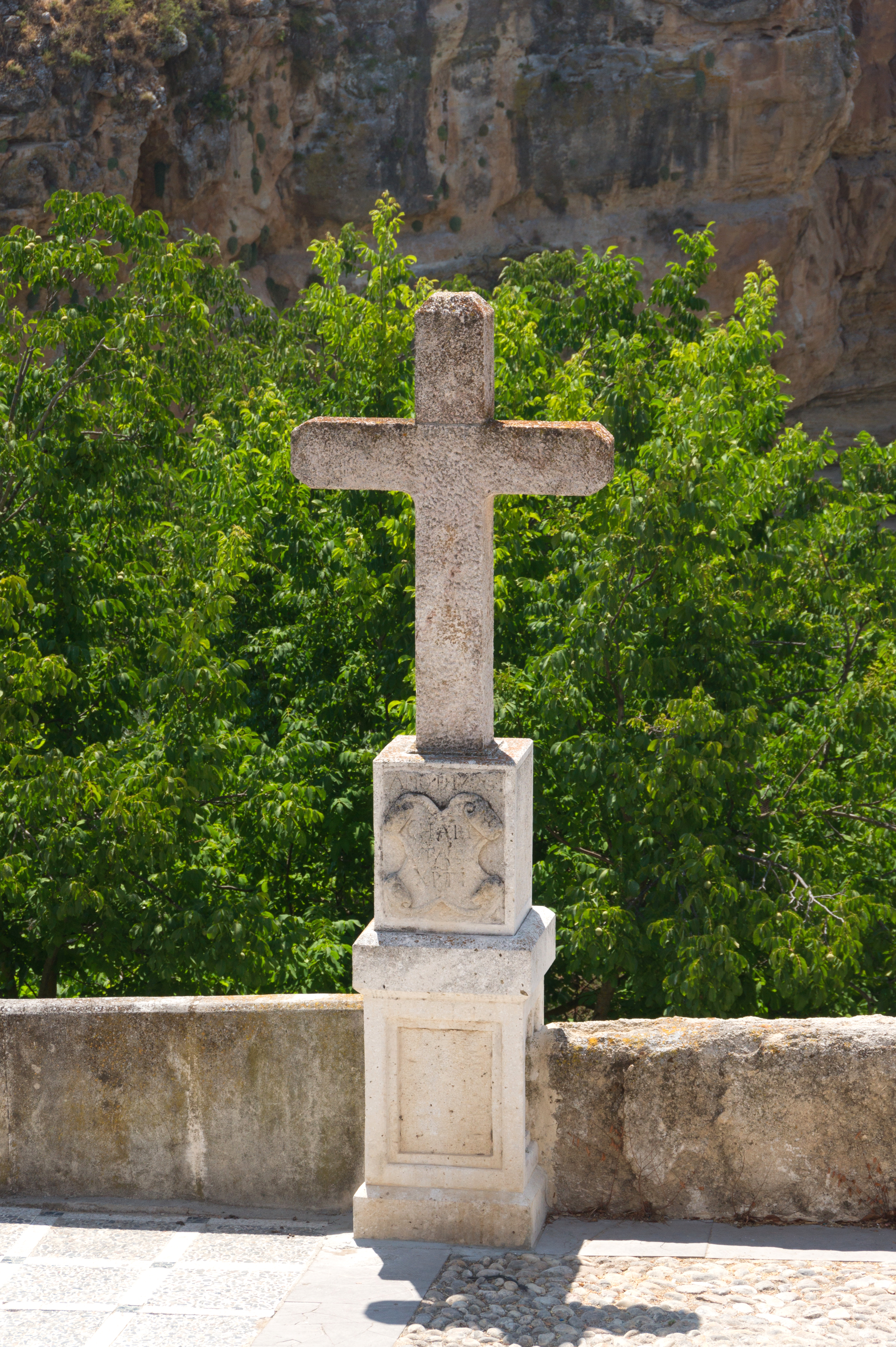 1756 wayside cross in Alhama de Granada, Andalusia, Spain.